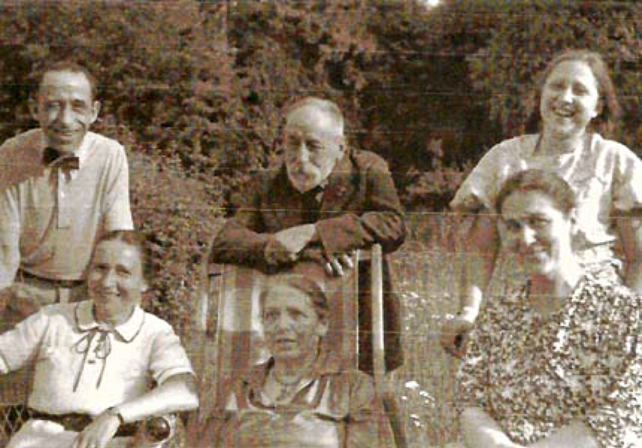 Picture of the late 1930s: on the left Max Flesch-Thebesius, M. D. (1889–1983) behind his wife Amelie Flesch-Thebesius, in the middle Max Flesch, M. D. (1852–1943) behind his wife Hella Flesch, on the right Marlies Flesch-Thebesius, later protestant priest (* 1920) behind Elisabeth Weigert (1889–1942), all from Frankfurt am Main, Hesse, Germany.